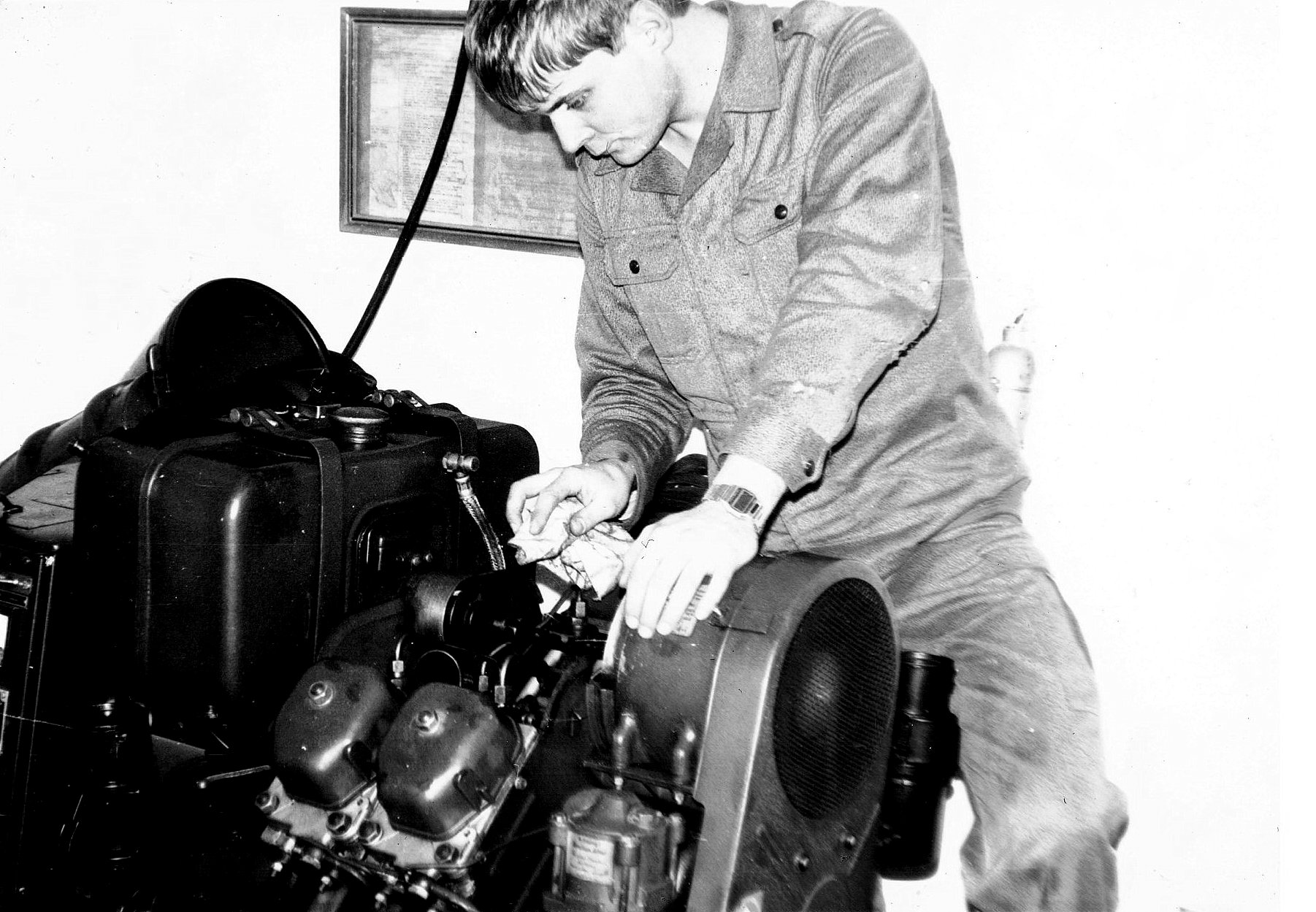 Border Protection Forces in Jastarnia